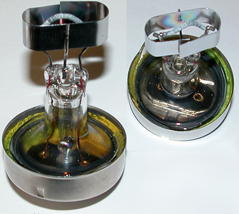 Inside the lamp ends of an F71 preheat bi-pin tanning lamp - Shield is not connected to either pin (isolated). Thw two pins are connected by a filament (right) that has 3 Ω resistance, +/